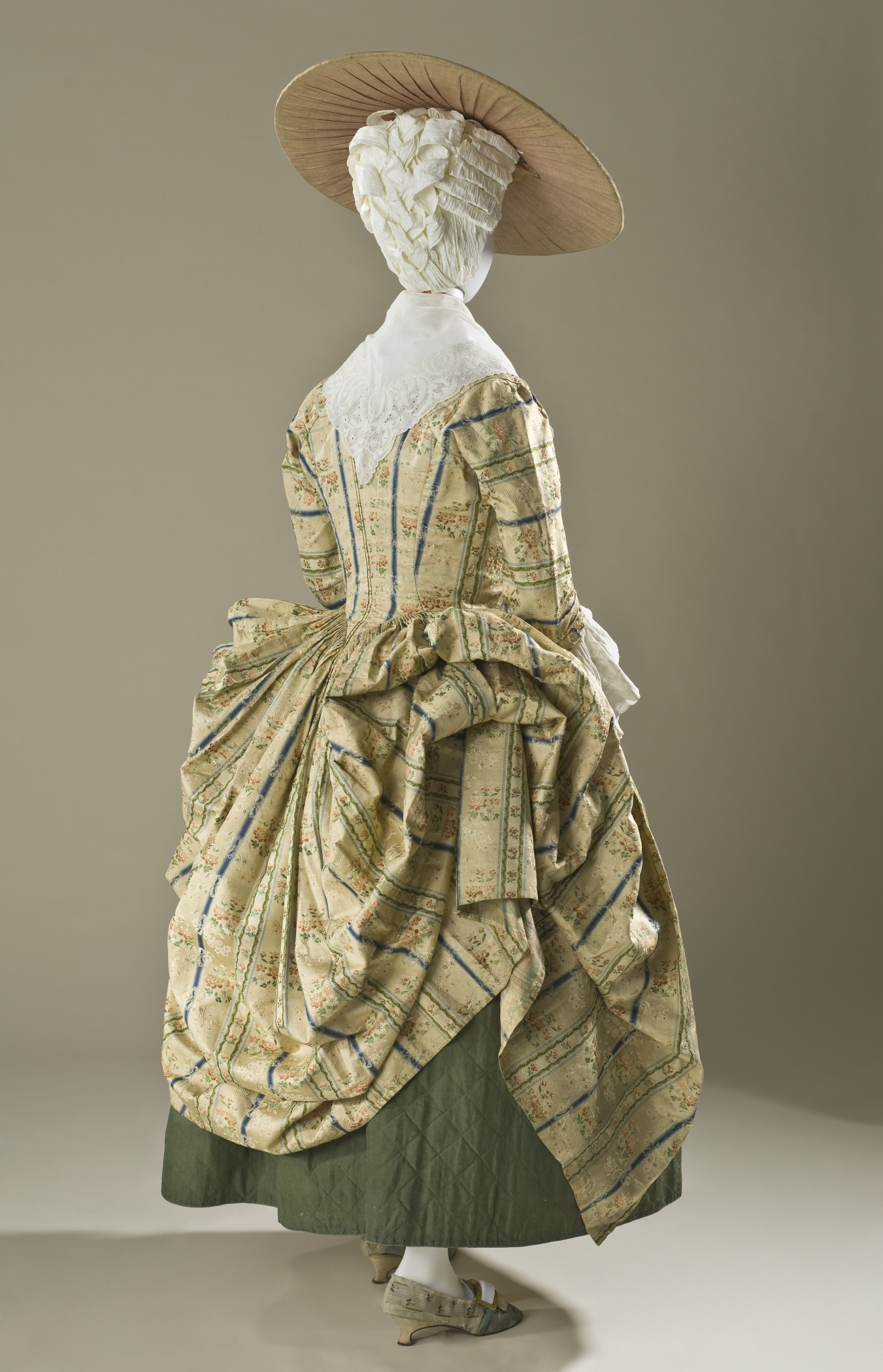 France, circa 1775 Costumes; principal attire (entire body) Silk plain weave with supplementary warp- and weft-float patterning Gift of Mrs. Derek A. Colls in memory of Mrs. Joanna Christie Crawford (M.70.85) Costume and Textiles